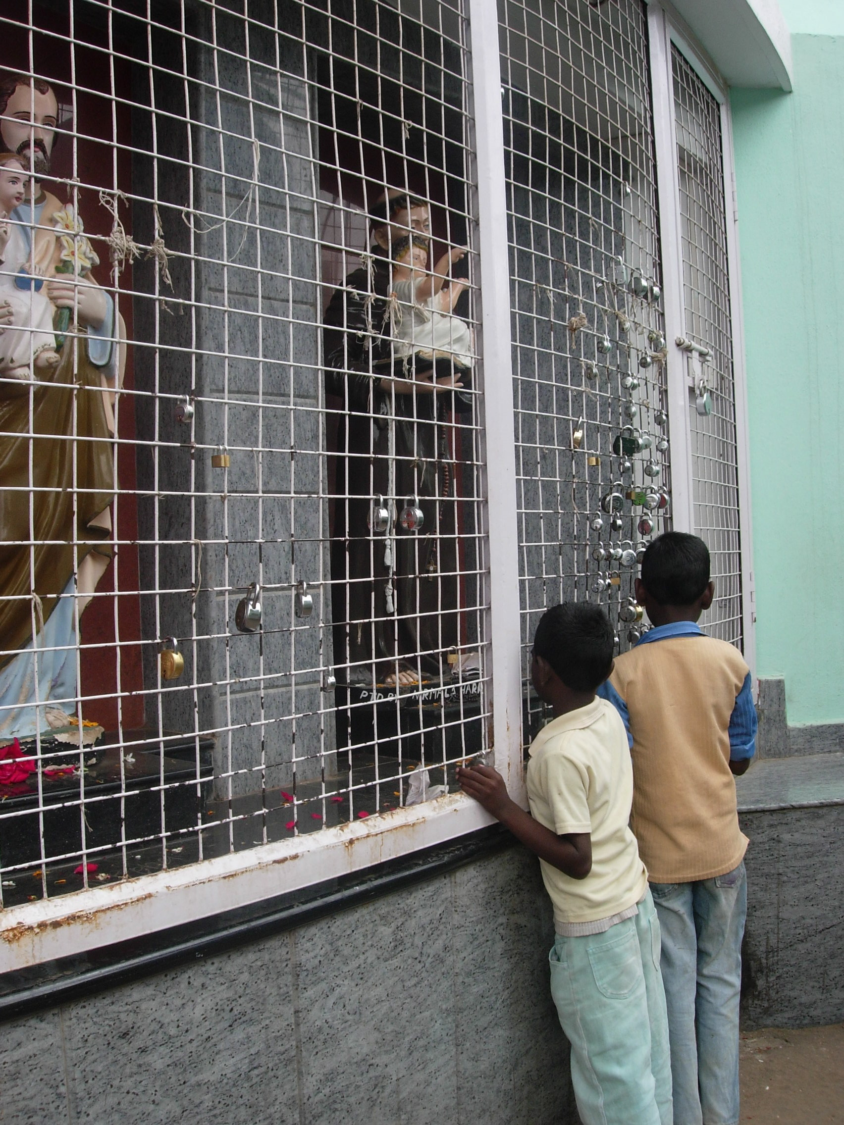 Kids playing outside of "Infant Jesus" shrine